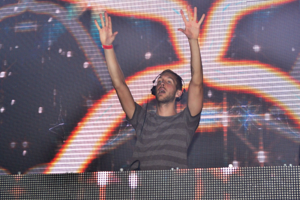 Calvin Harris at the Amnesia Nightclub, Ibiza, Spain